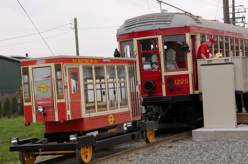 Opening day for the Fraser Valley Heritage Railway Interurban, from Cloverdale to Sullivan. Surrey BC. 130623-80